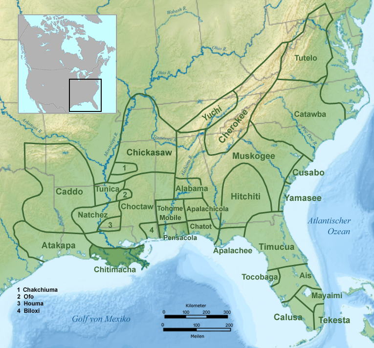 Tribal territory of Chitimacha during sixteenth century